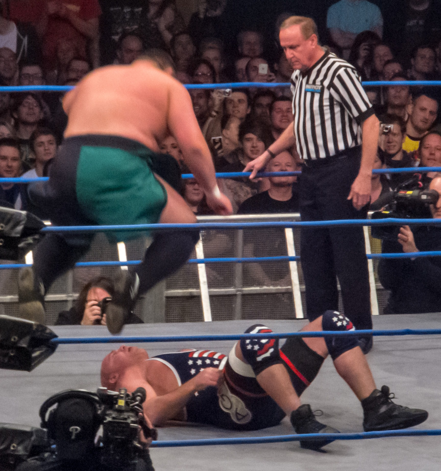 Samoa Joe drops a knee onto Kurt Angle at the Impact! TV Tapings in Wembley, England on January 26, 2013.